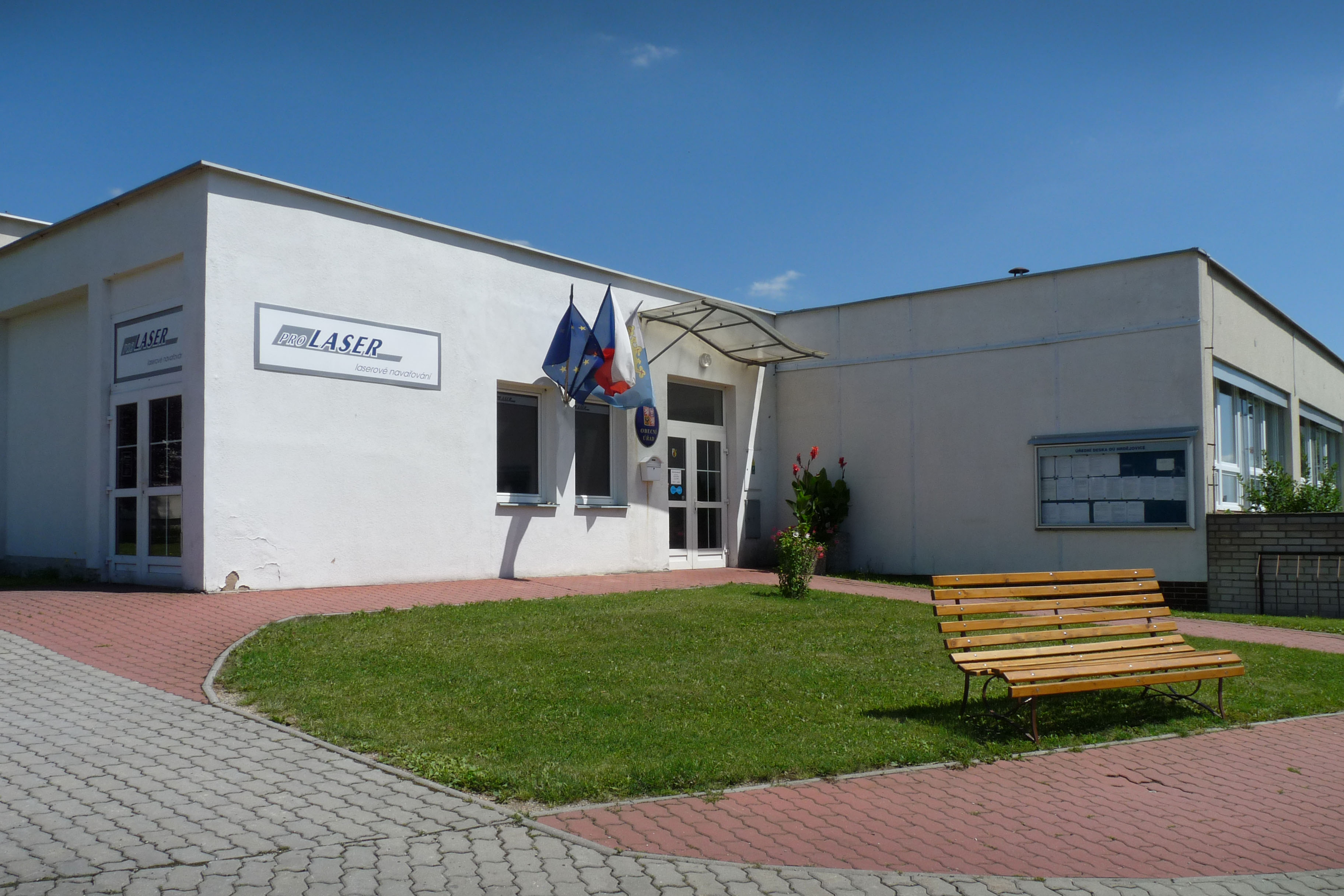 Municipal authority office in the village of Hrdějovice, České Budějovice District, Czech Republic. Česky: Obecní úřad v obci Hrdějovice v okrese České Budějovice.